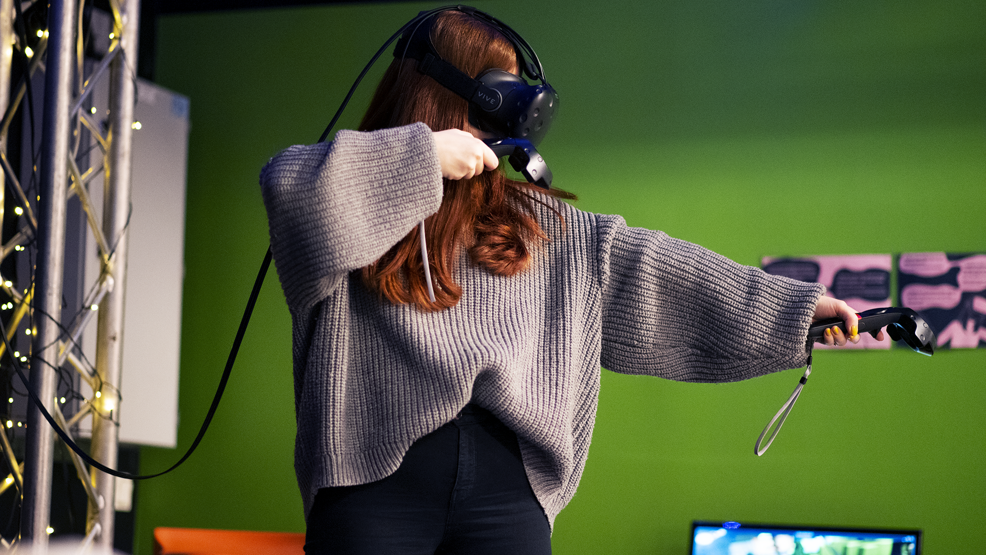 Cool Minds har flera VR-set. På plats kan man testa olika VR-spel.